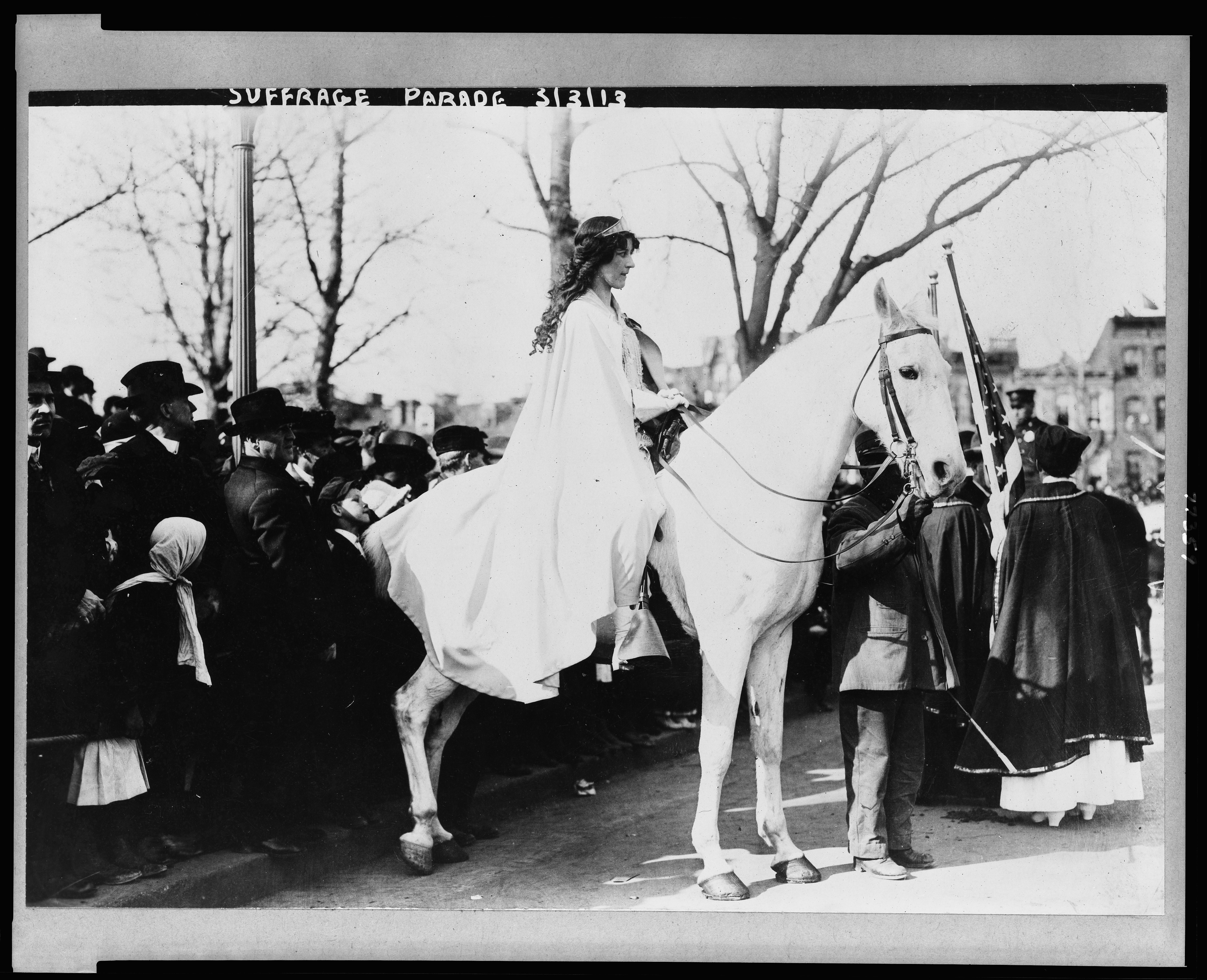 Lawyer Inez Boissevain, wearing white cape, seated on white horse at the National American Woman Suffrage Association parade, March 3, 1913, Washington, D.C.